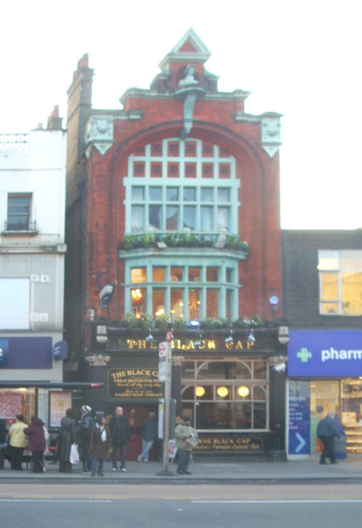 The Black Cap, Camden, London, Gay Pub